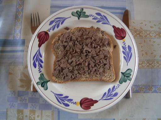 Hagelslag, traditional dutch treat to be used on a slice of bread. This variation shows what is called "vlokken".